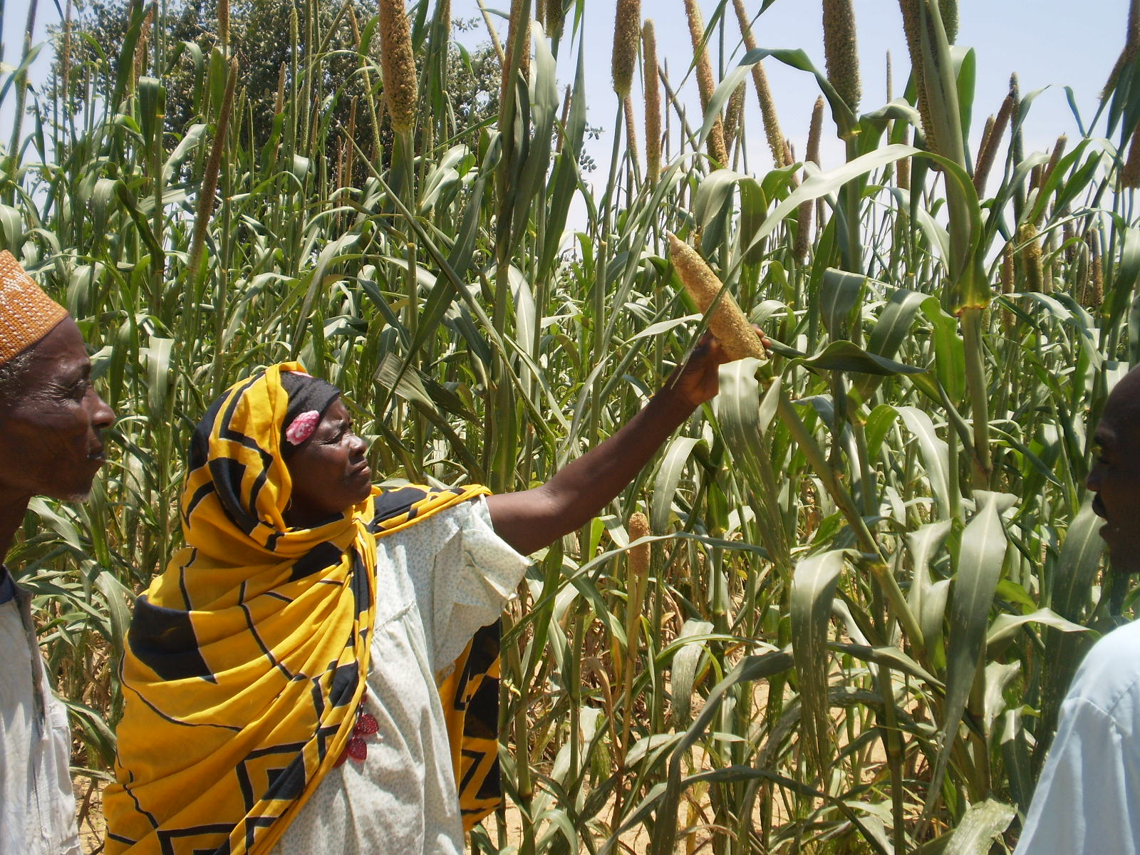 Visiting group checking the result of test field